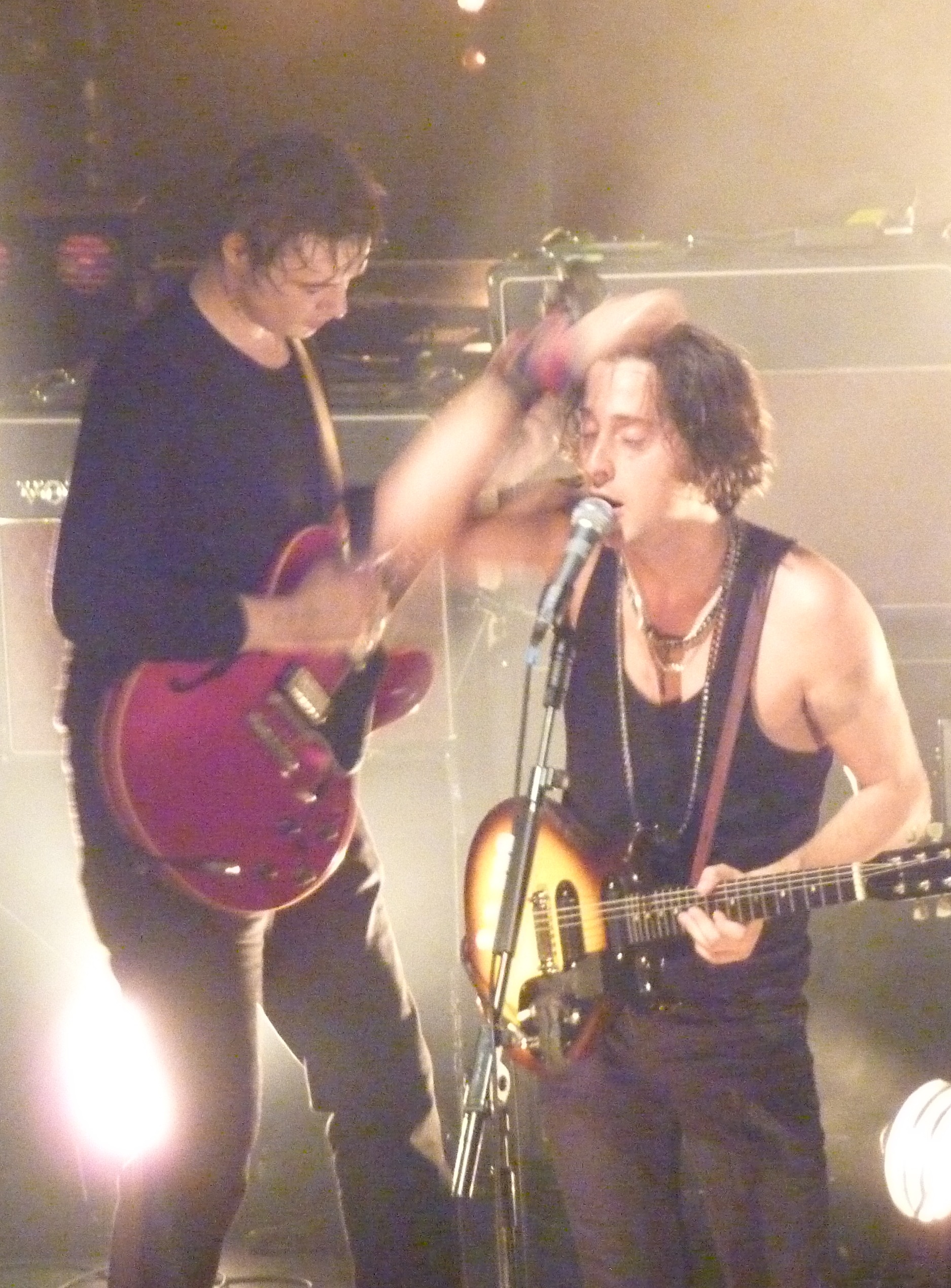 The Libertines at HMV Forum